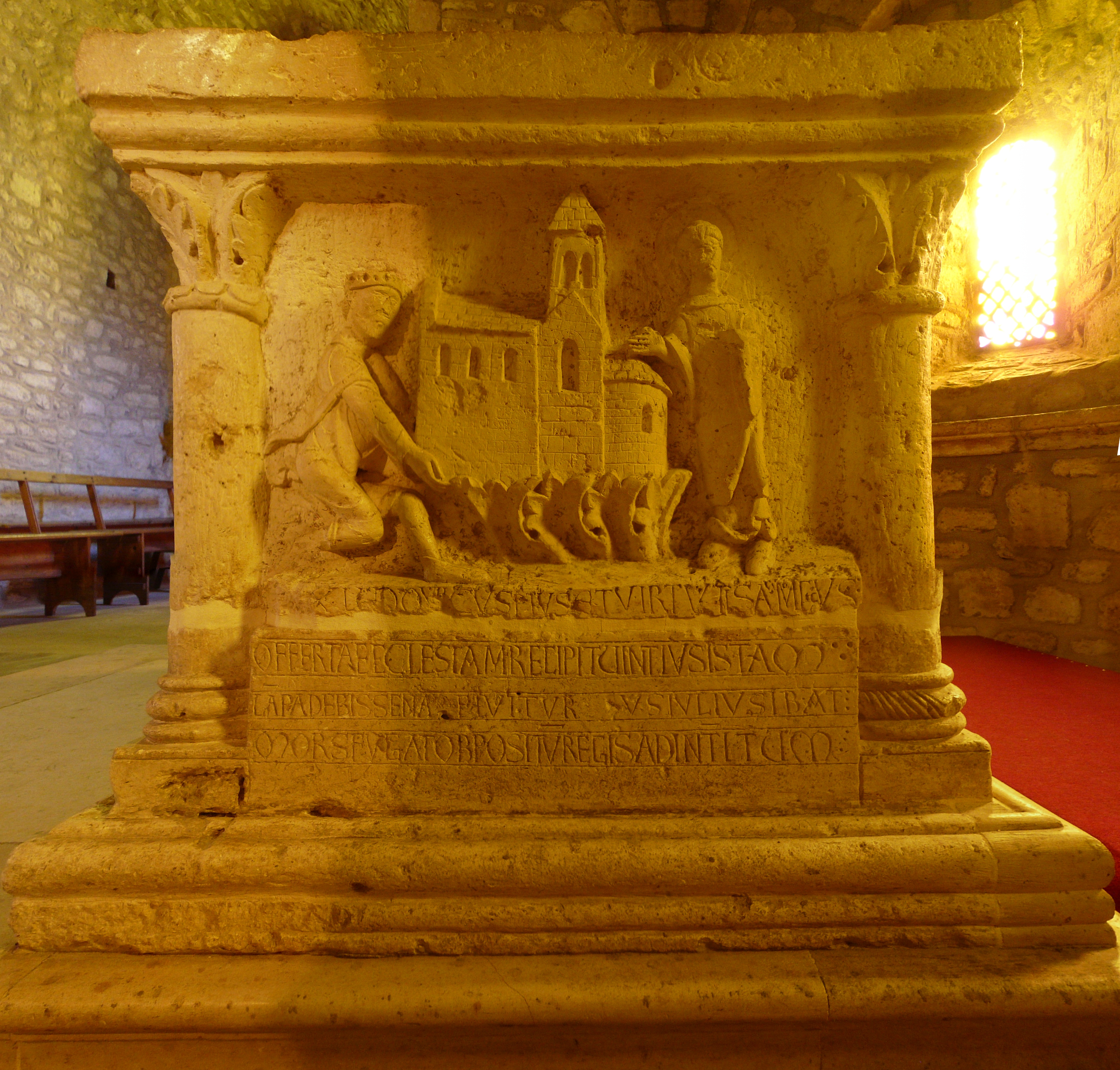 south side of the altar of the church of Avenas.